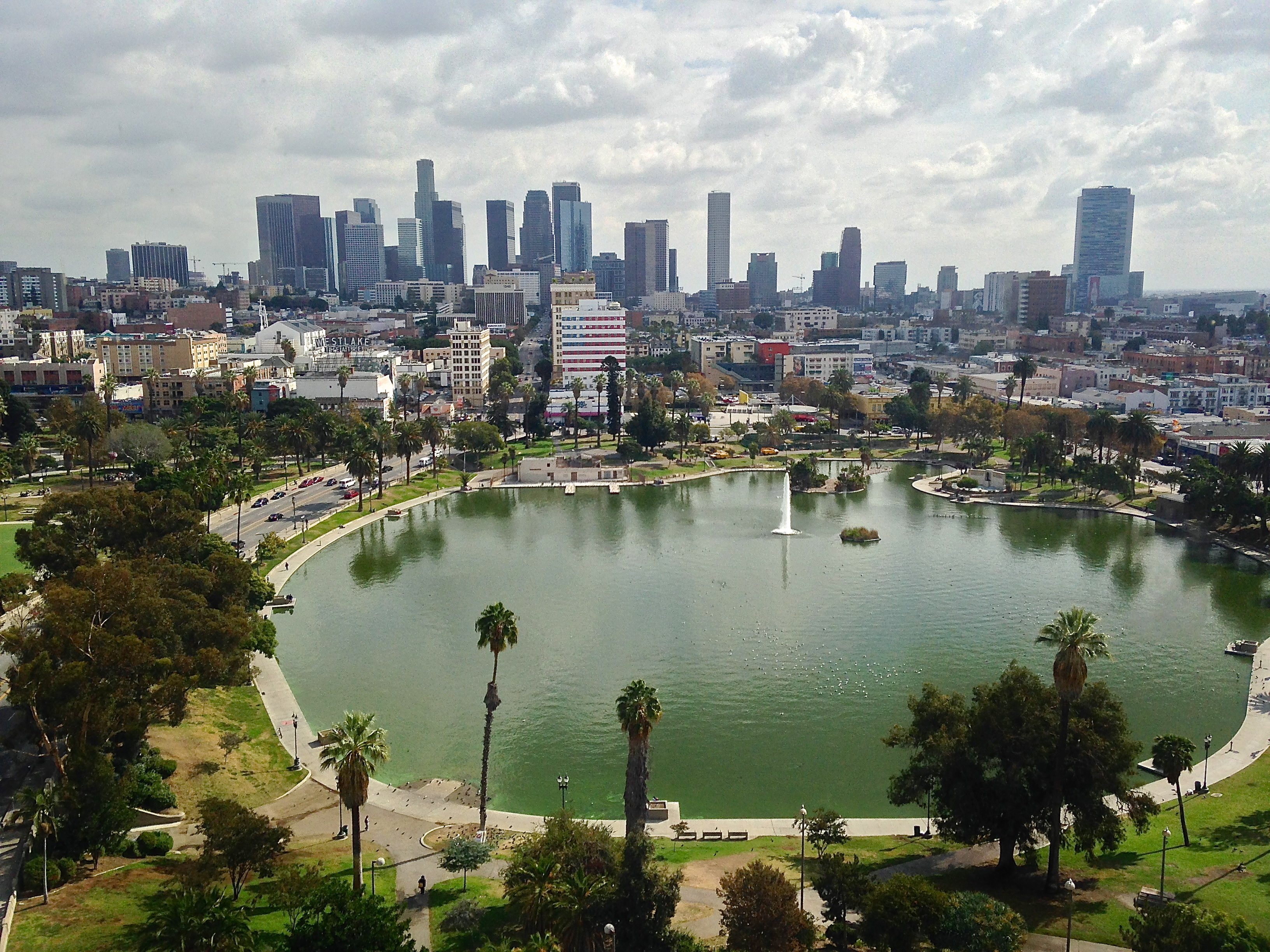 MacArthur Park, Los Angeles, CA, USA